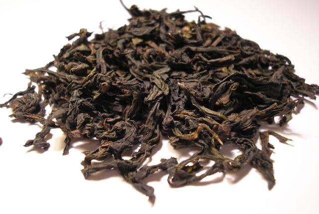 I am the author, this is a picture of tea leaves I took.